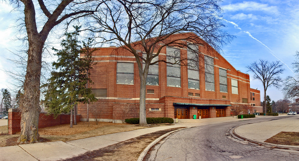 Michigan State University Jenison Fieldhouse, Photograph by Patrick T. Power, March 8, 2006